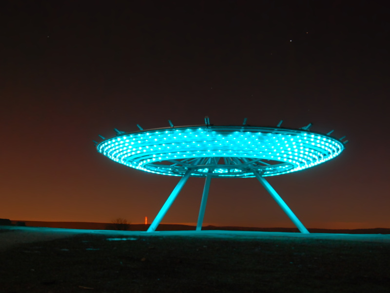 The Halo in Haslingden, Rossendale. Copying, distribution, and/or modification requires attribution to the author -- see permission below.